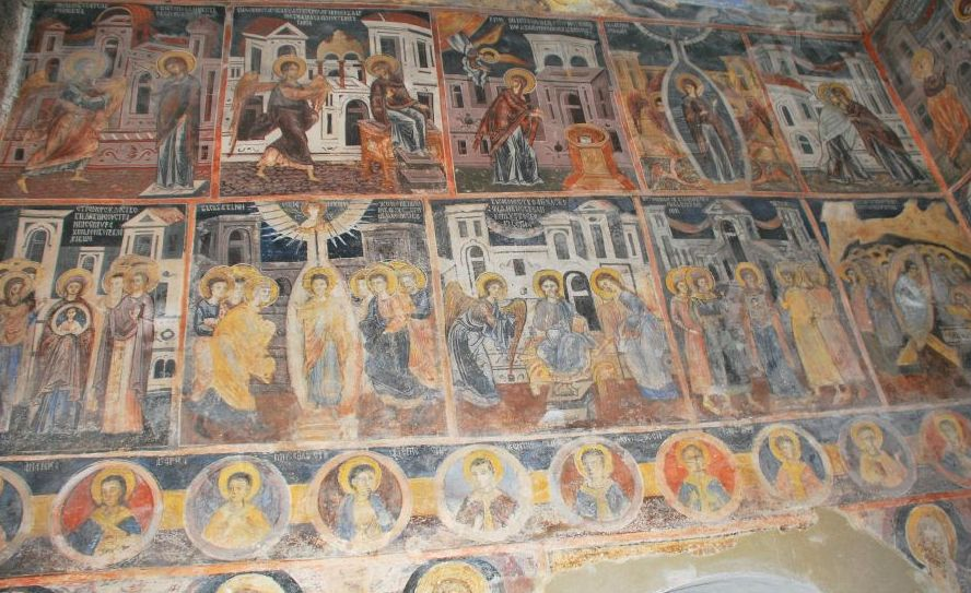 Fresco in the St. George Church in Pološko Monastery, Macedonia